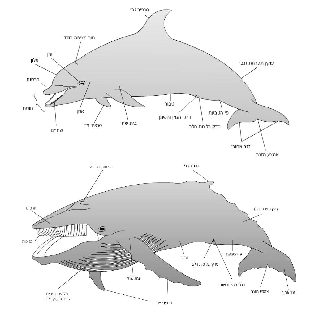 Baleen whale (Mysticeti) and Toothed whale (Odontoceti)